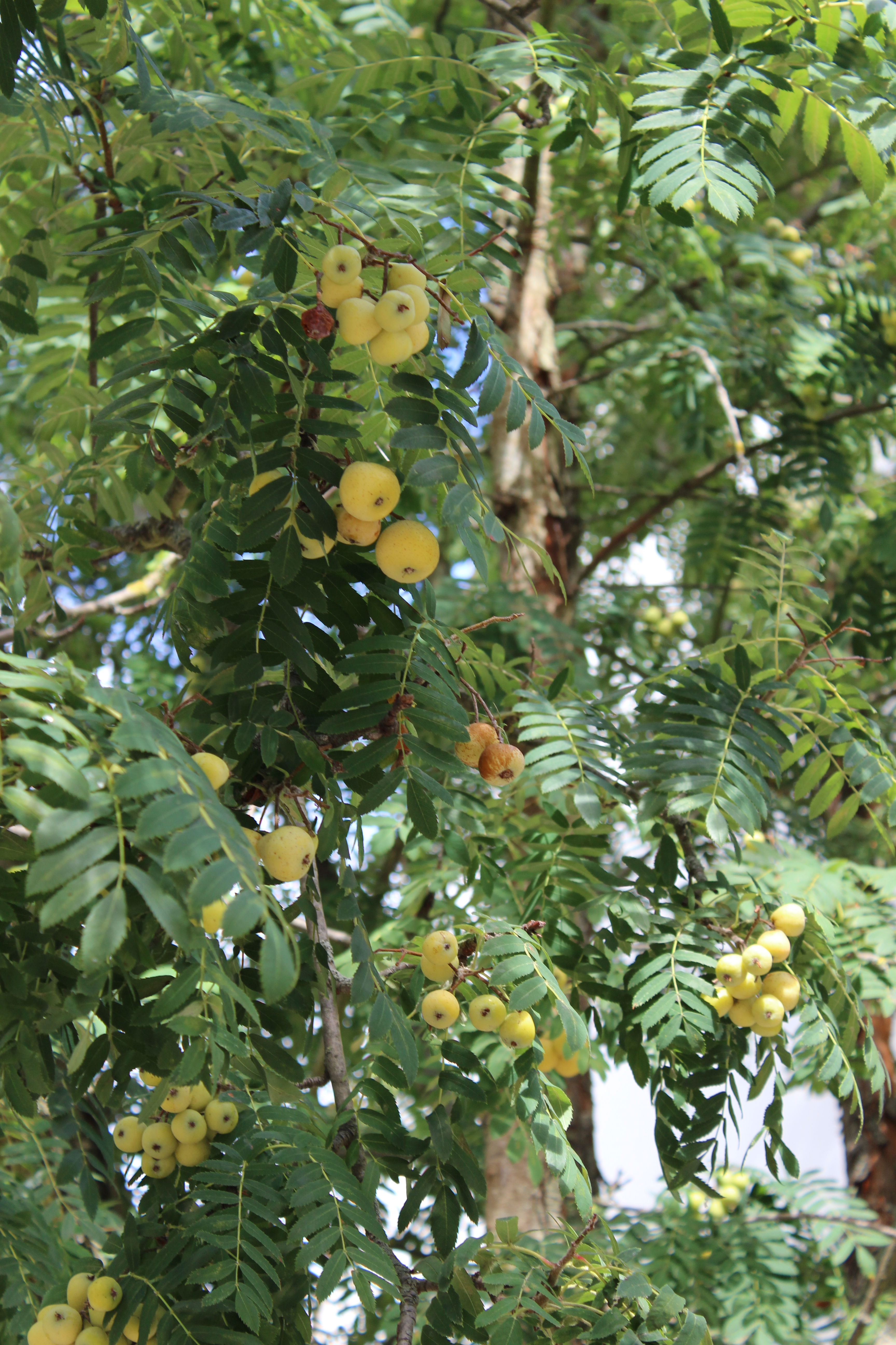 "Sorbus domestica"